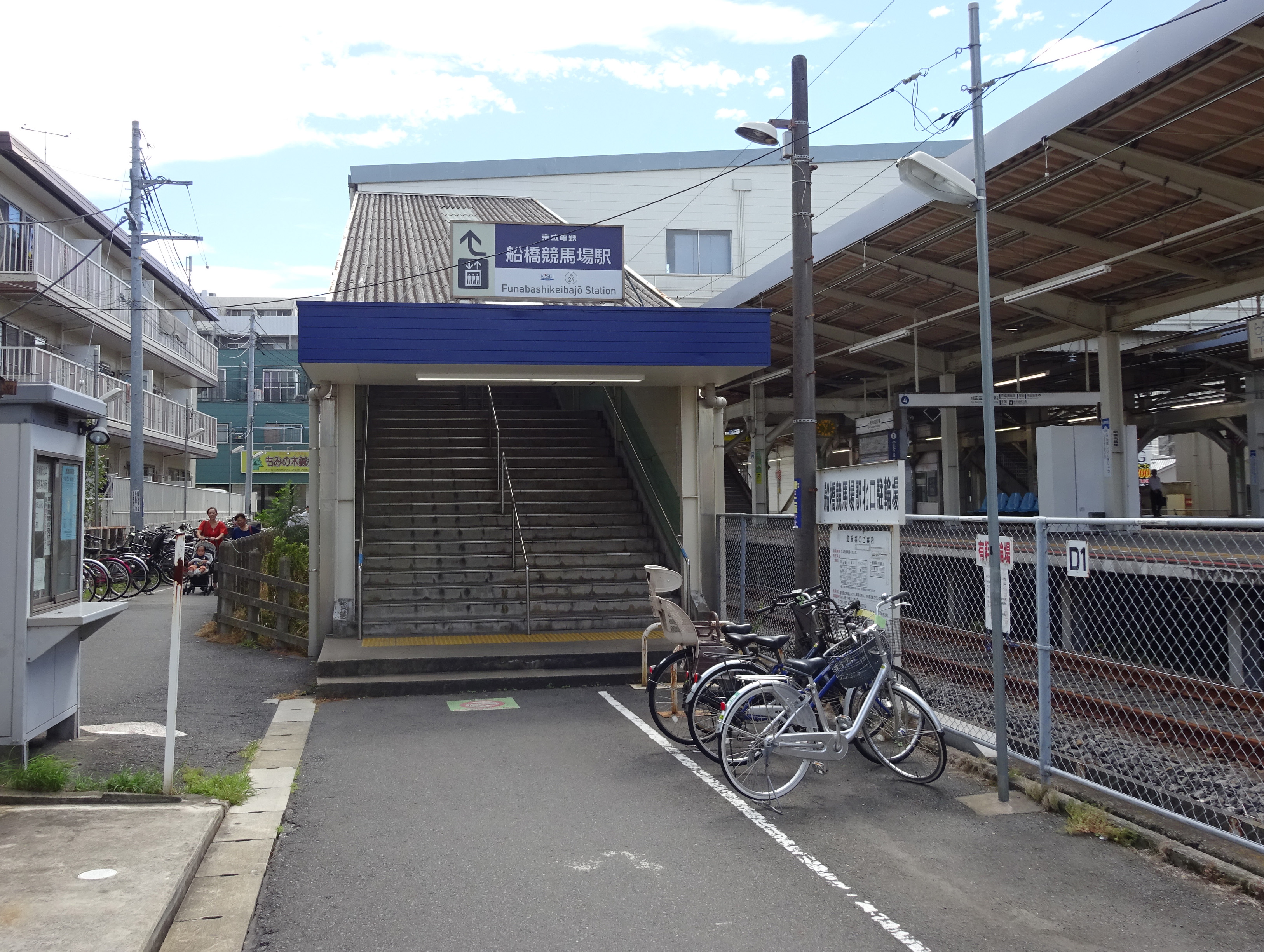 North entrance of Funabashikeibajō Station